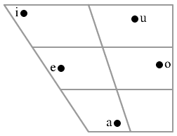 IPA vowel chart for Japanese.